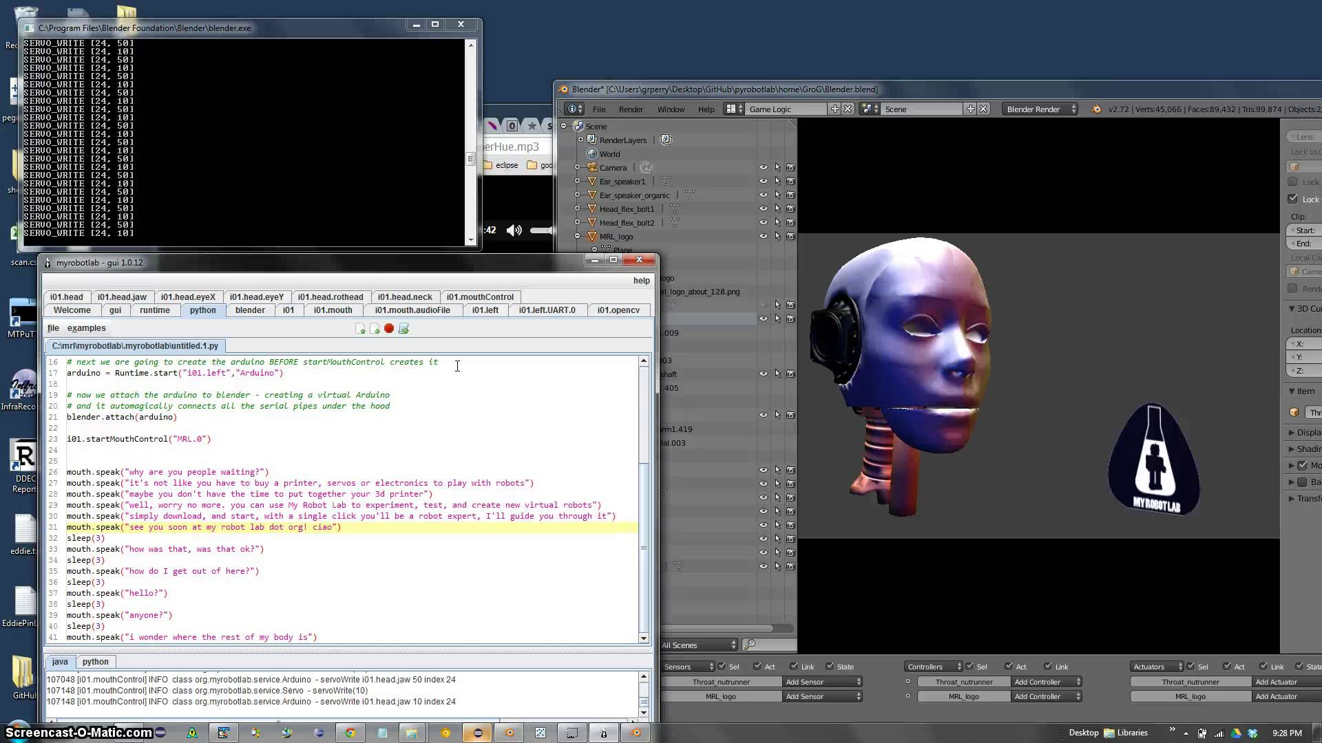 MyRobotLab's Virtual InMoov. A script designed and developed on the emulator can run a real robot without any changes.